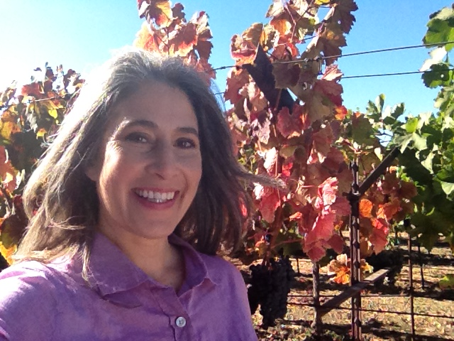 Aliza Sherman filming a Digital Minute segment while in Napa, California. (Self-portrait)